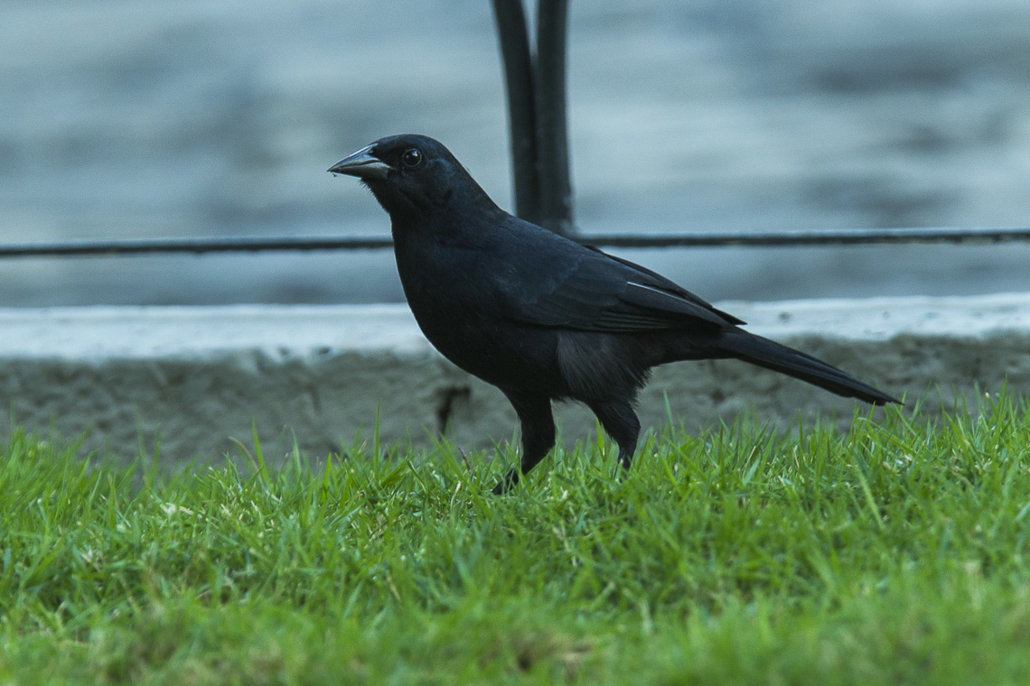 Scrub Blackbird - South Ecuador_S4E7818